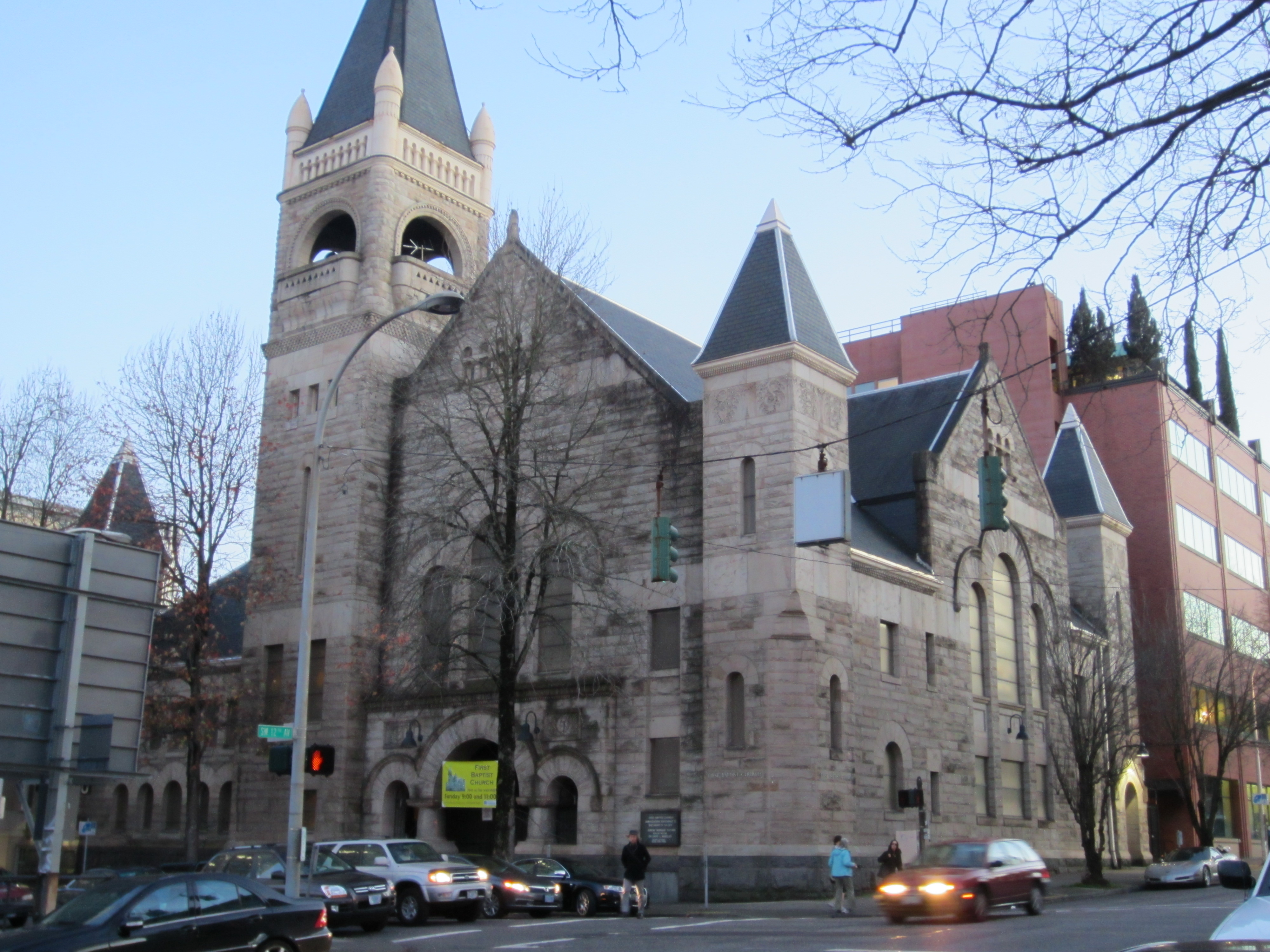 First Baptist Church in downtown Portland, Oregon in 2012